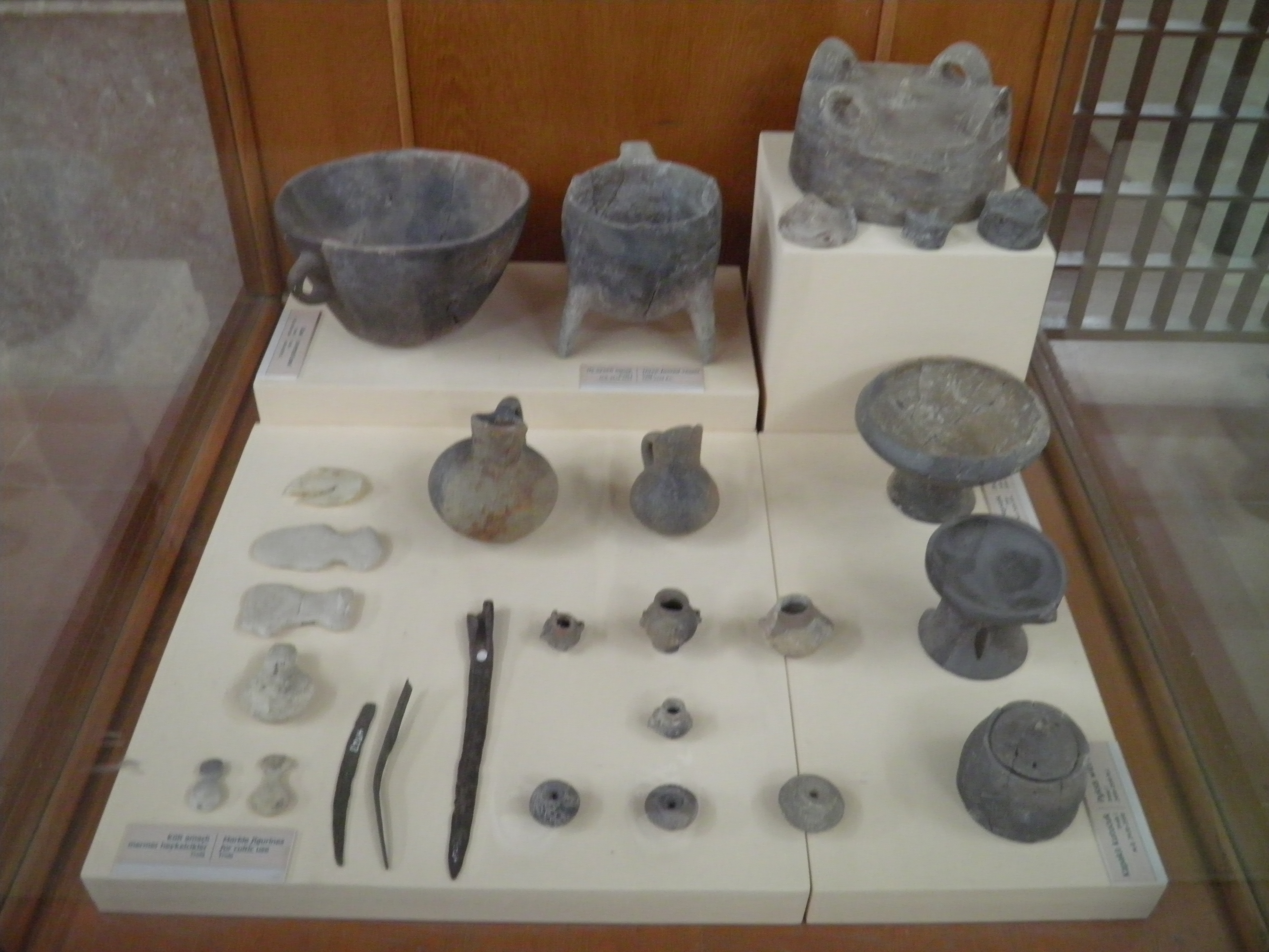 Troy (Ilion), Turkey